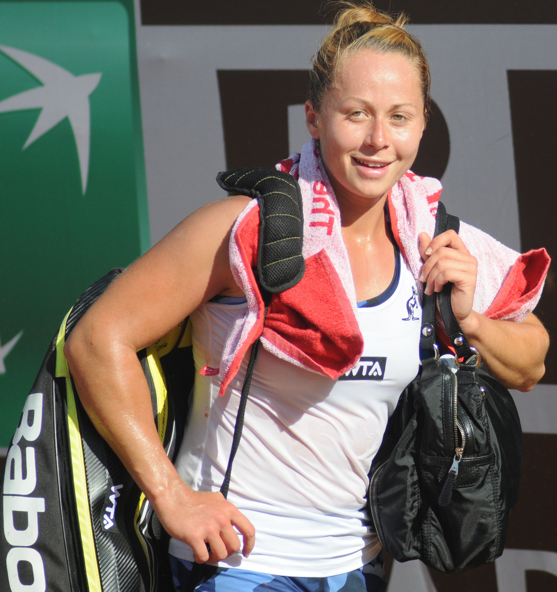 Anastasia Grymalska at the 2014 Internazionali BNL d'Italia aka the Rome Masters